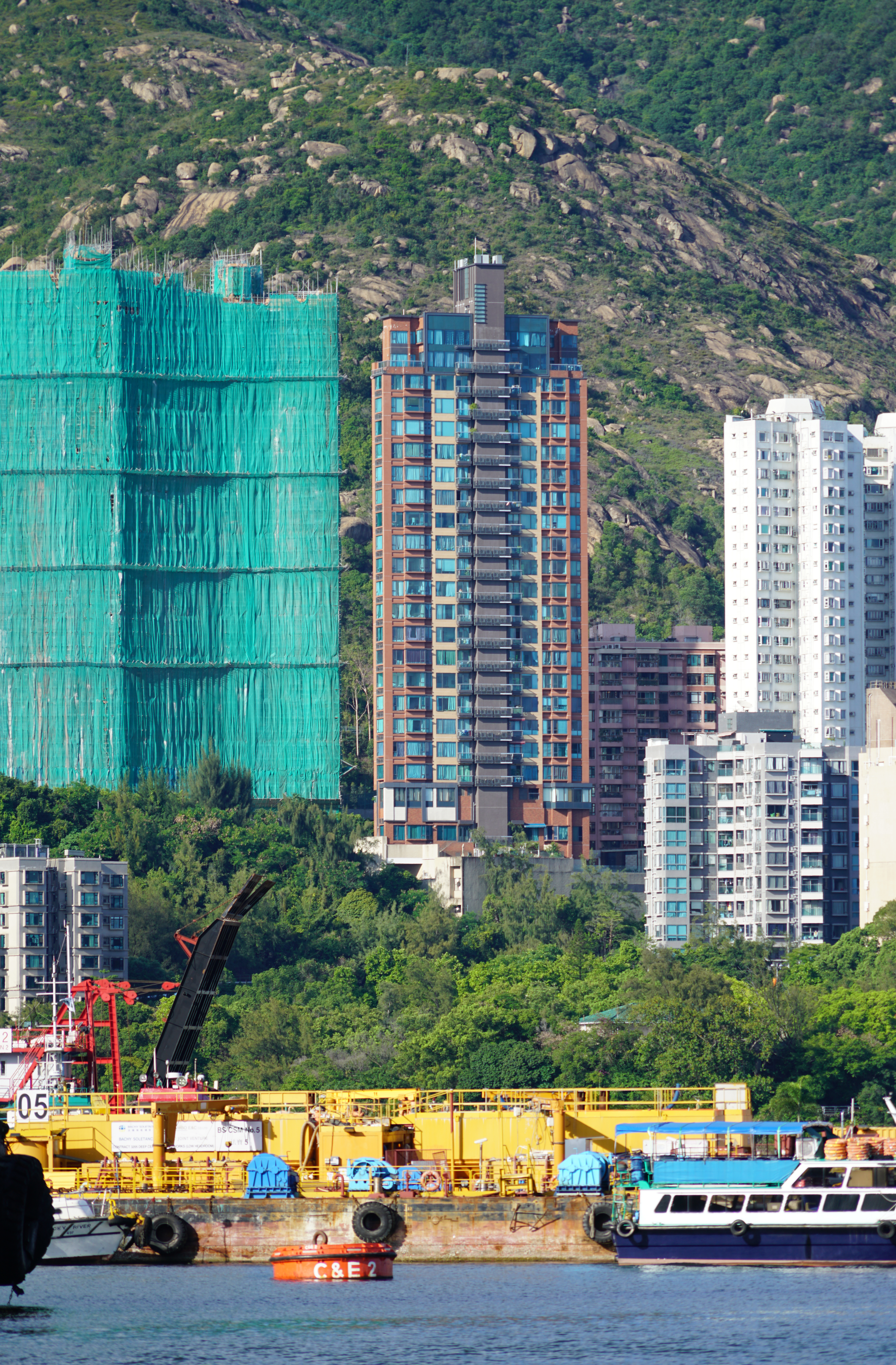 Crown By The Sea, Hong Kong.